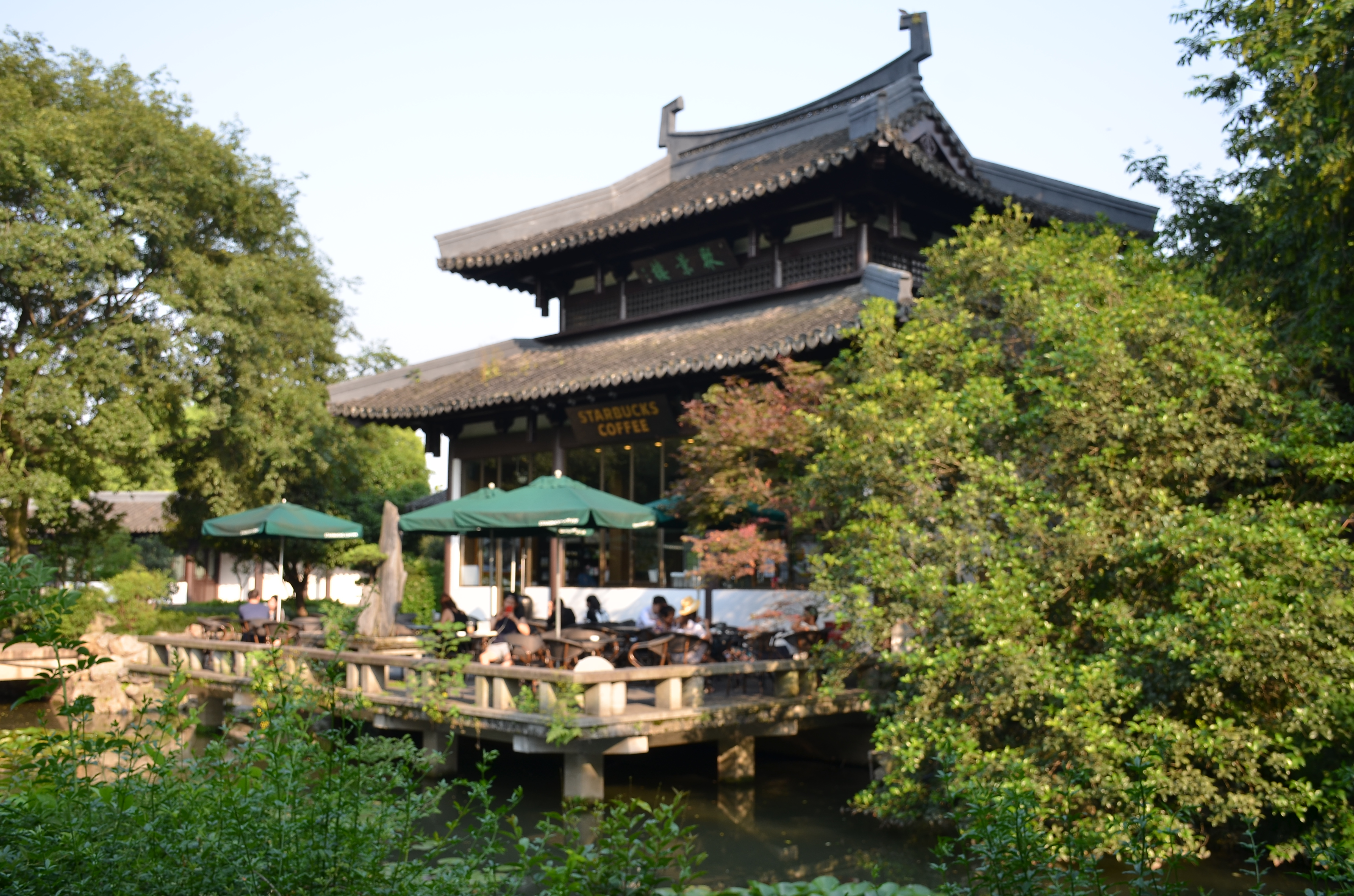 What a gorgeous setting for a cafe inside the Xixi Wetland Park! Now I do not know why this picture is so blurred (maybe I took the picture while walking or maybe that setting error again where I had flicked the focus switch to L again?), and I do not even know why I retained it here, despite it's being a disaster, but I think it is because of the Starbucks sign on the coffee shop frontage. Yes, Starbucks can be see everywhere in China nowadays, even in the Xixi Wetlands Reserve. (Hangzhou, China, May 2017)